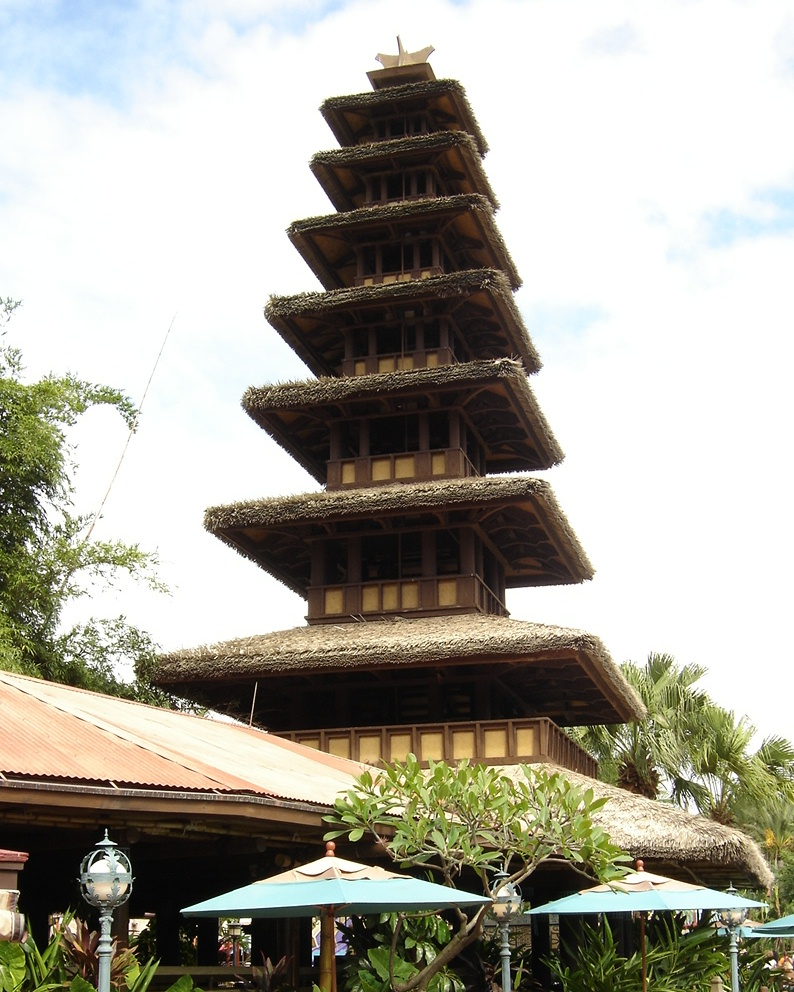 Exterior of The Enchanted Tiki Room (Under New Management) attraction at the Magic Kingdom in November 2006.